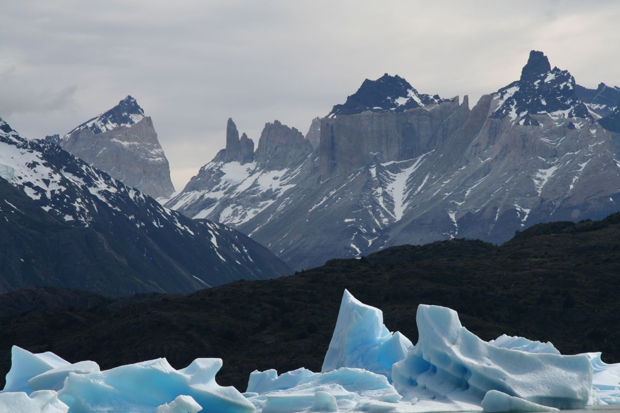 Lago Grey, Torres del Paine National Park, Chile